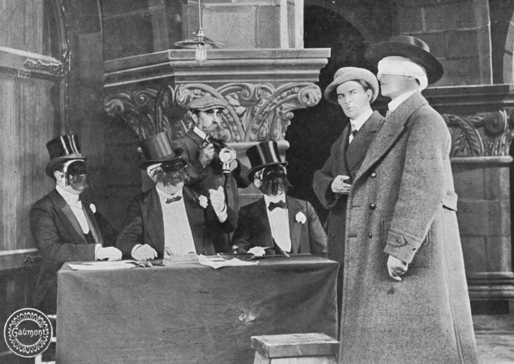 Screenshot from the 1911 film Le Trust by Louis Feuillade